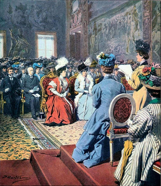 Image of women at the Congresso delle donne italiane, Rome, 1908.